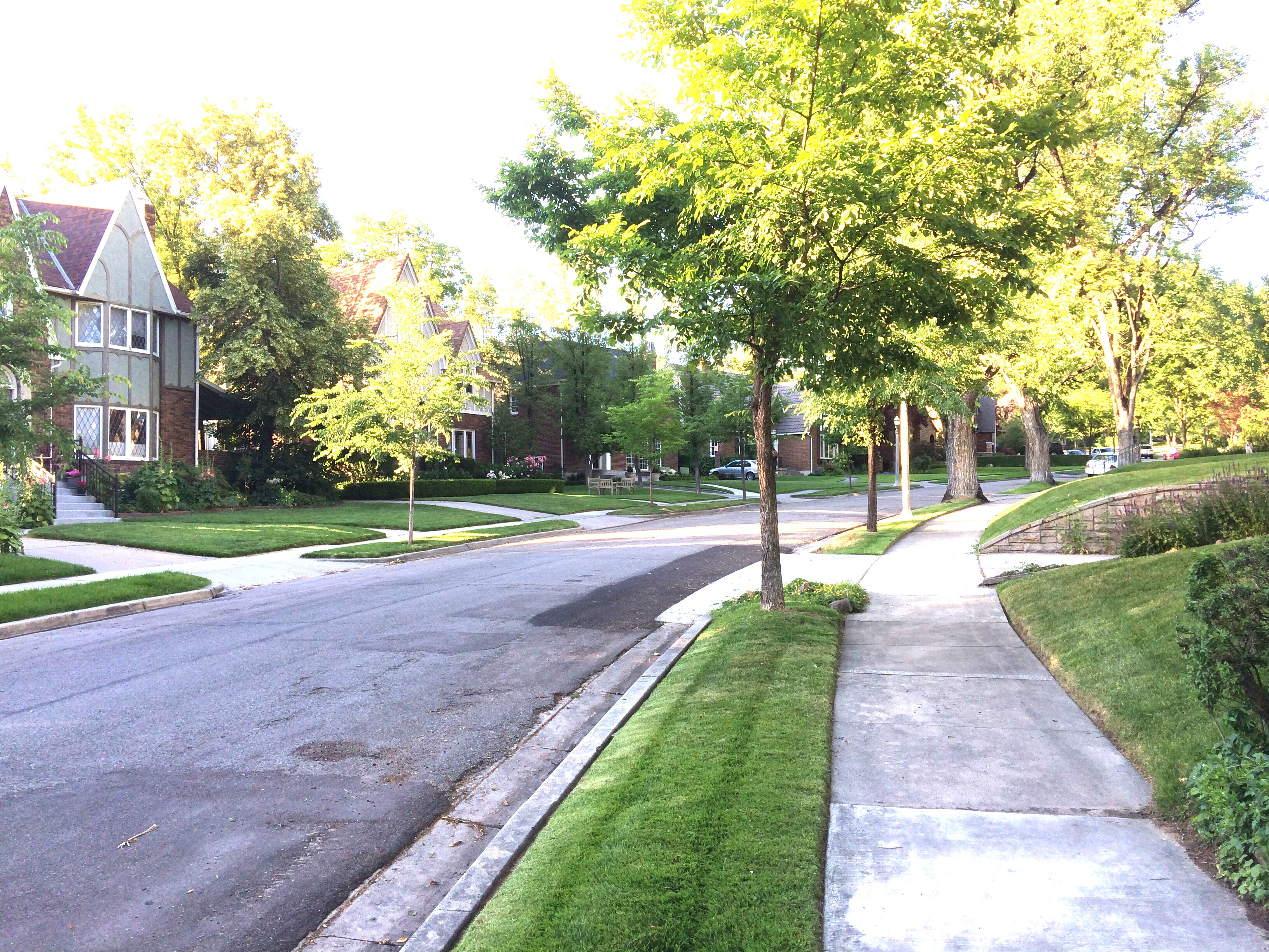 Yalecrest Princeton Streetscape